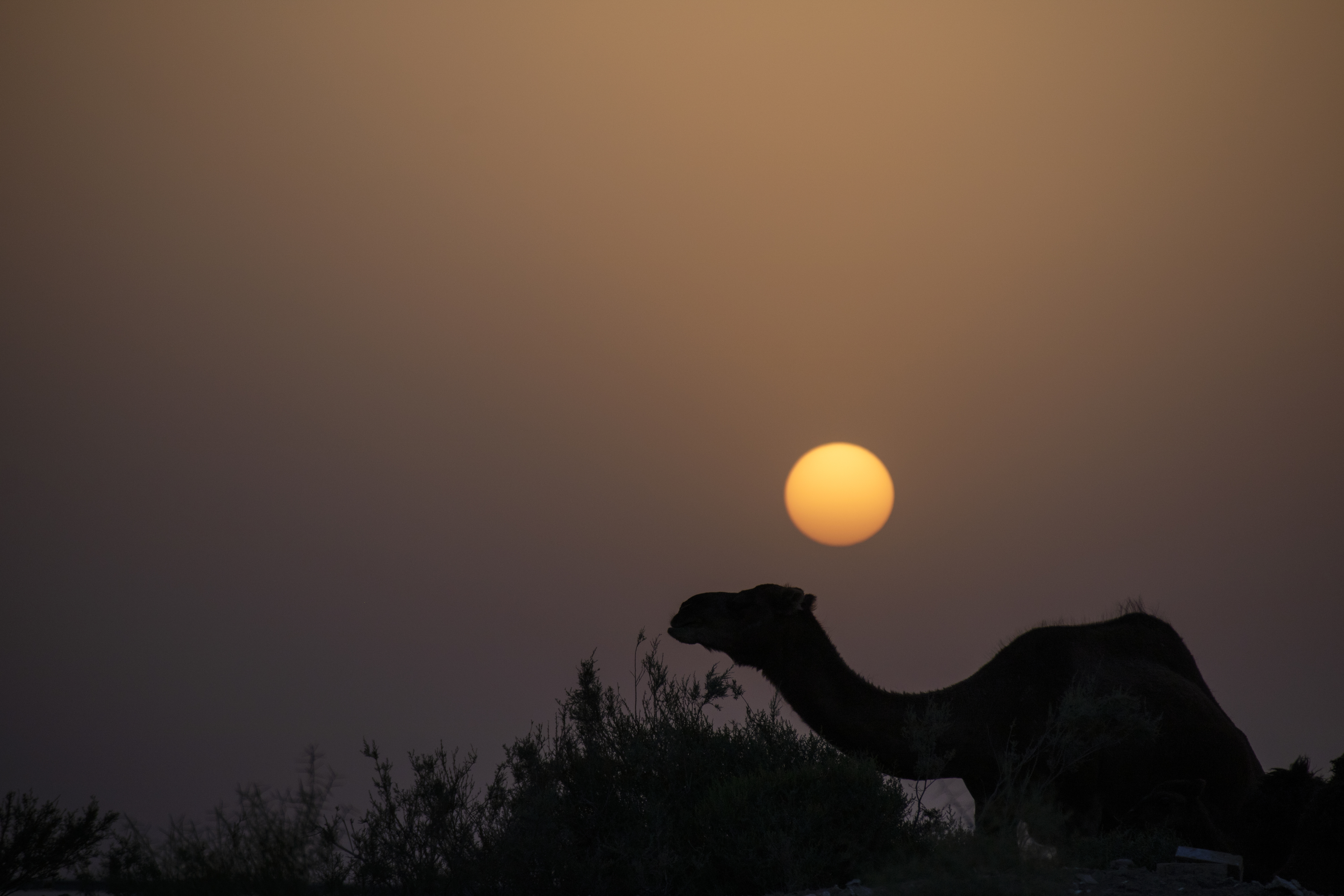 Deir-e Gachin Caravansarai is one of the greatest caravansarais of Iran which is located in the center of Kavir National Park. Its unique qualities is the reason it is called “Mother of Iranian Caravansarais”. It is located in the Central District of Qom County, 80 kilometers north-east of Qom (60 kilometers into Garmsar Freeway) and 35 kilometers south-west of Varamin. (Photo by: Mostafa Meraji, wiki loves monuments 2018)